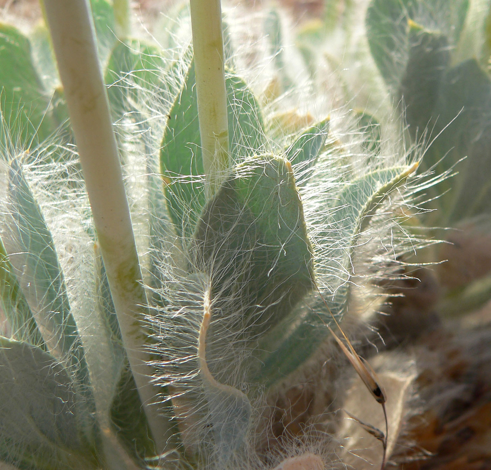 Arctomecon merriamii in Calico Basin, west of Las Vegas, Nevada